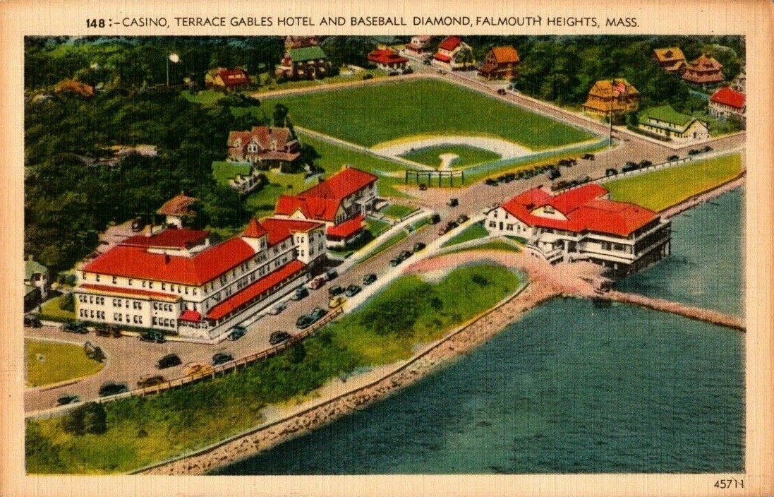 1930s color postcard of Casino, Terrace Gables Hotel, and Central Park baseball diamond at Falmouth Heights, Cape Cod, Massachusetts.